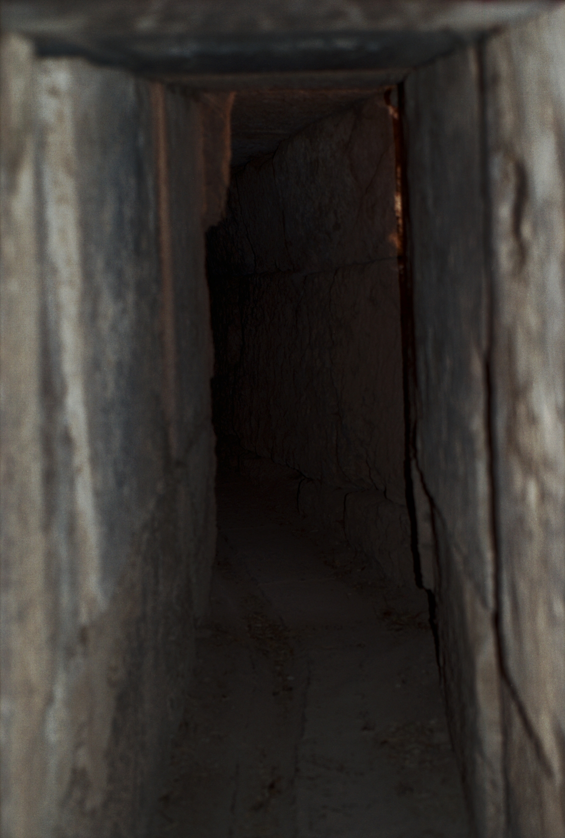 An abortive attempt on the way to the grave of Dionysus, ie by descent to the Delphic oracle. Under the temple of Apollo at Delphi.